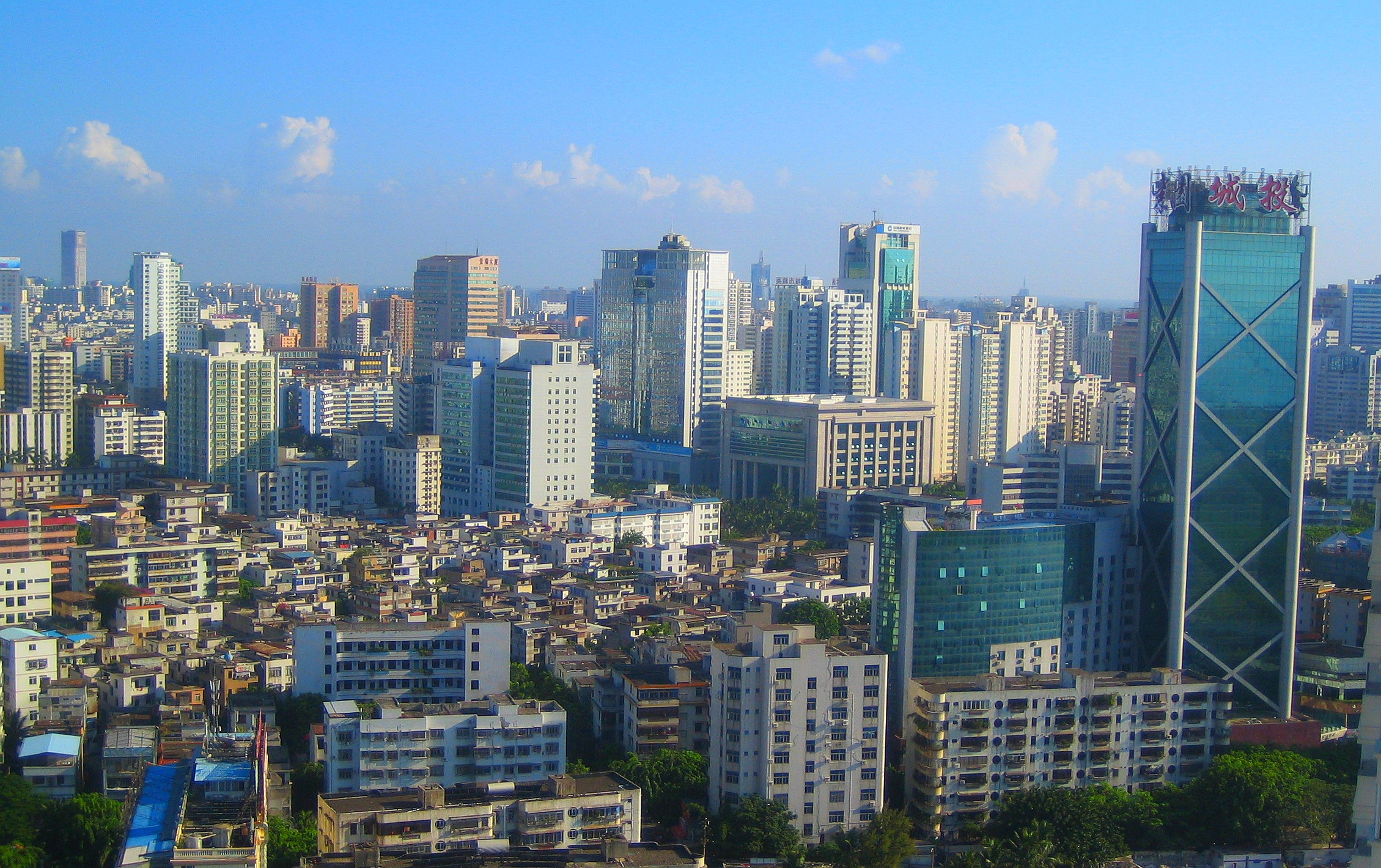 Haikou skyline, Hainan Province, China